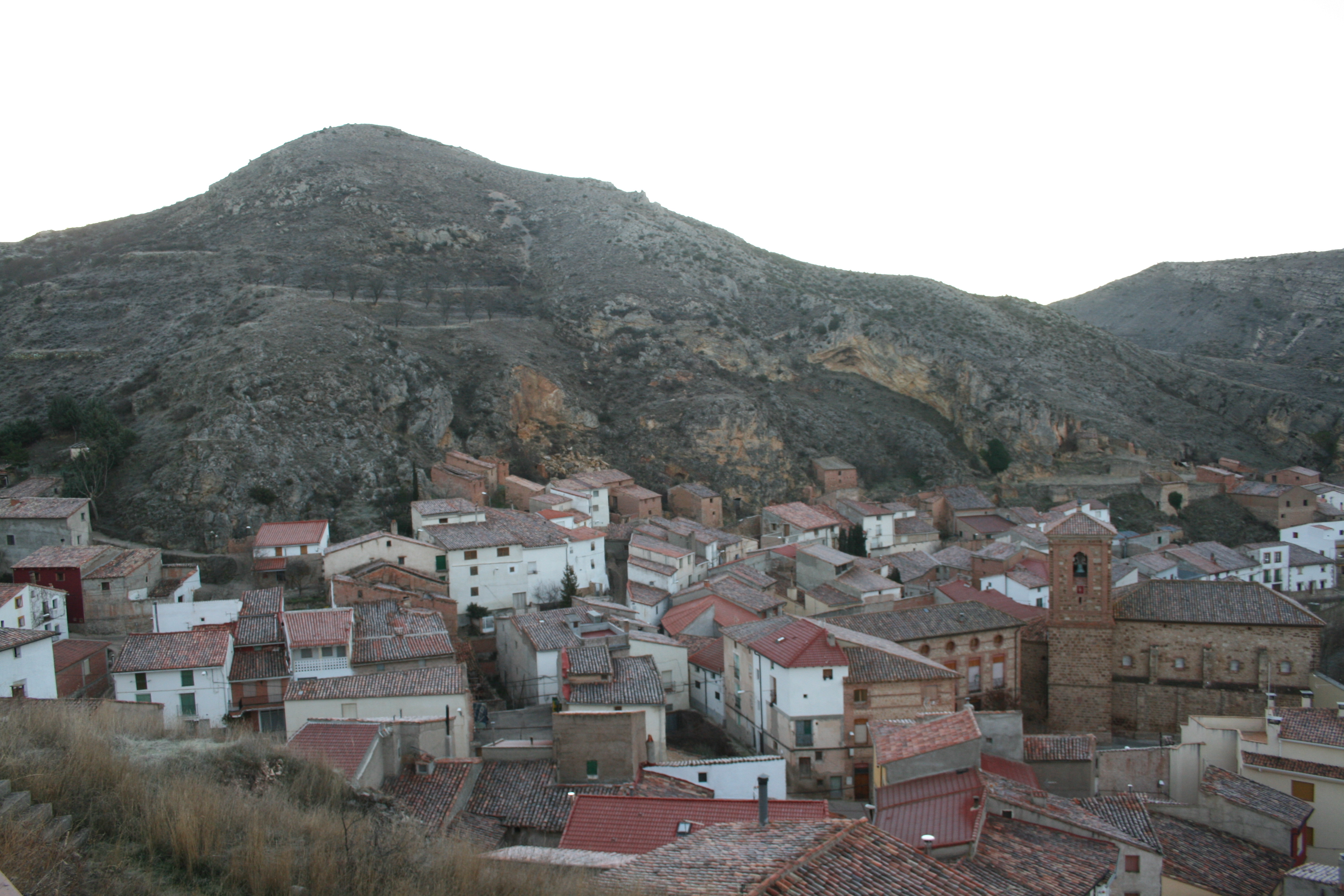 View of Bijuesca, Spain